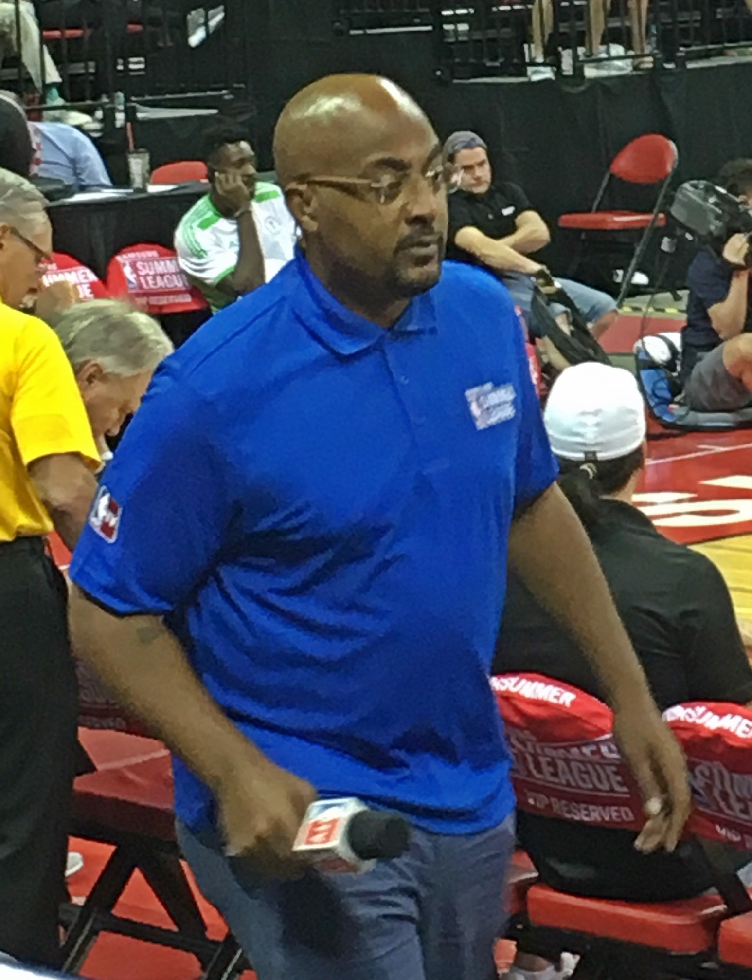 Dennis Scott working for NBA TV at 2016 Summer League